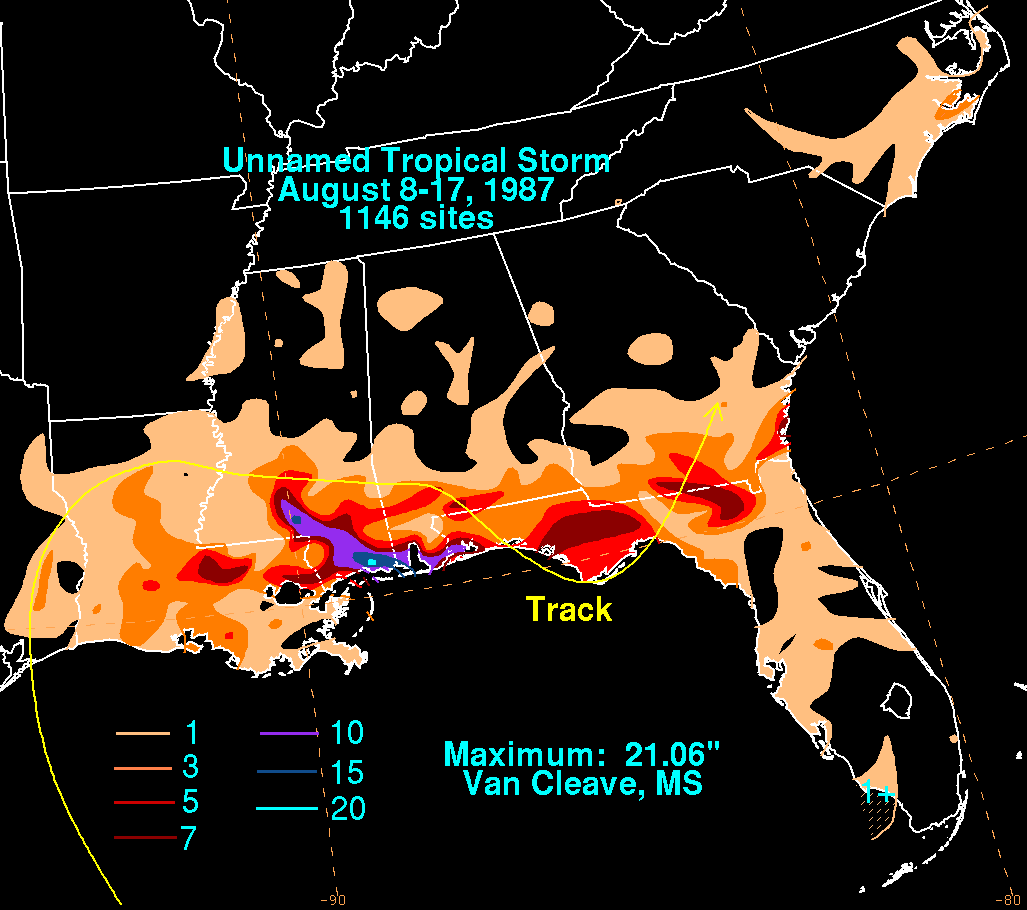 Storm total rainfall map of a tropical storm during August 1987.